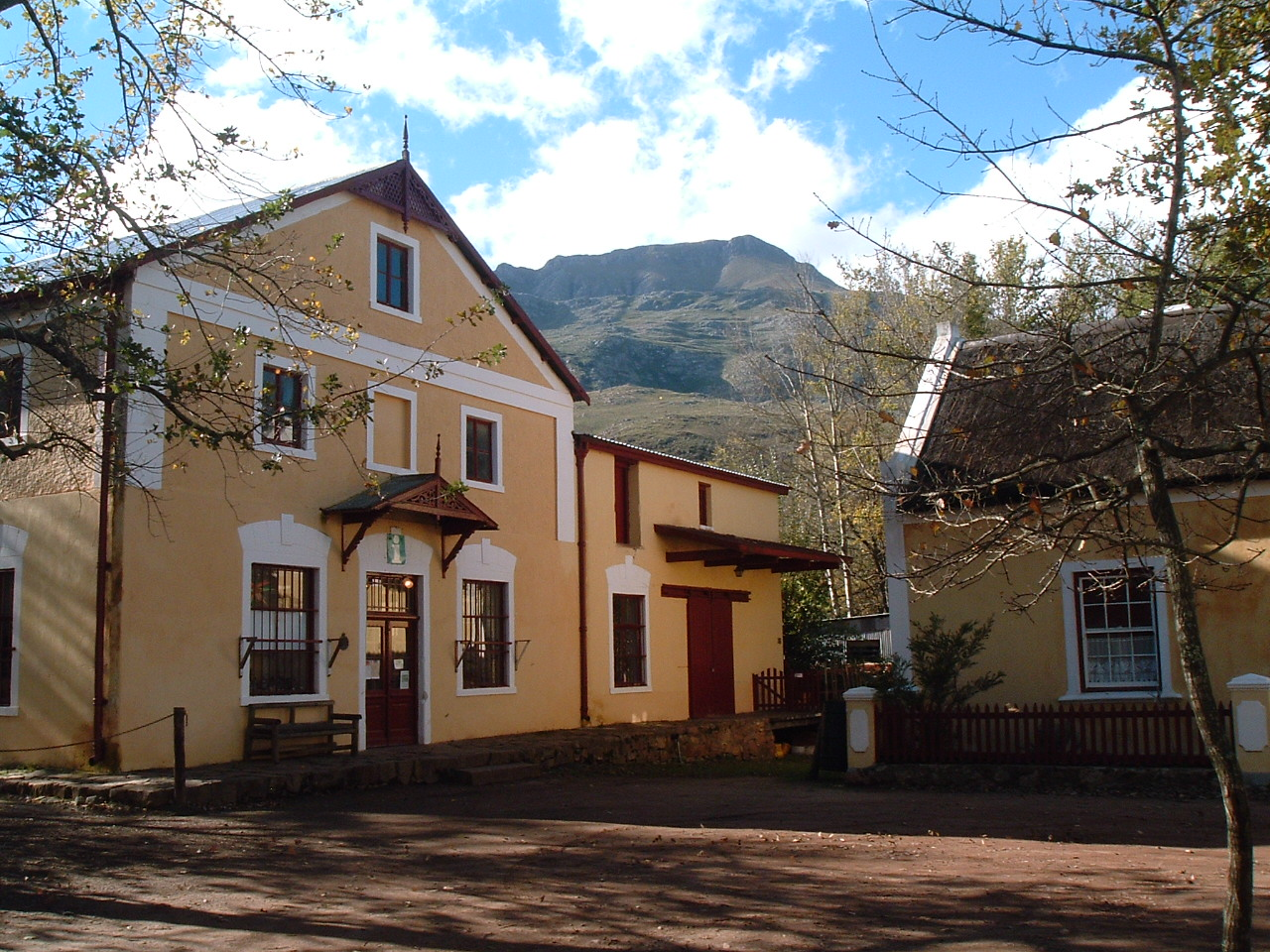 The Genadendal Moravian Mission Station, which was founded by the missionary George Schmidt in 1737, is the oldest mission village in the Republic. The large number of historic buildings within the historic core date from the eighteenth and nineteenth centuries.